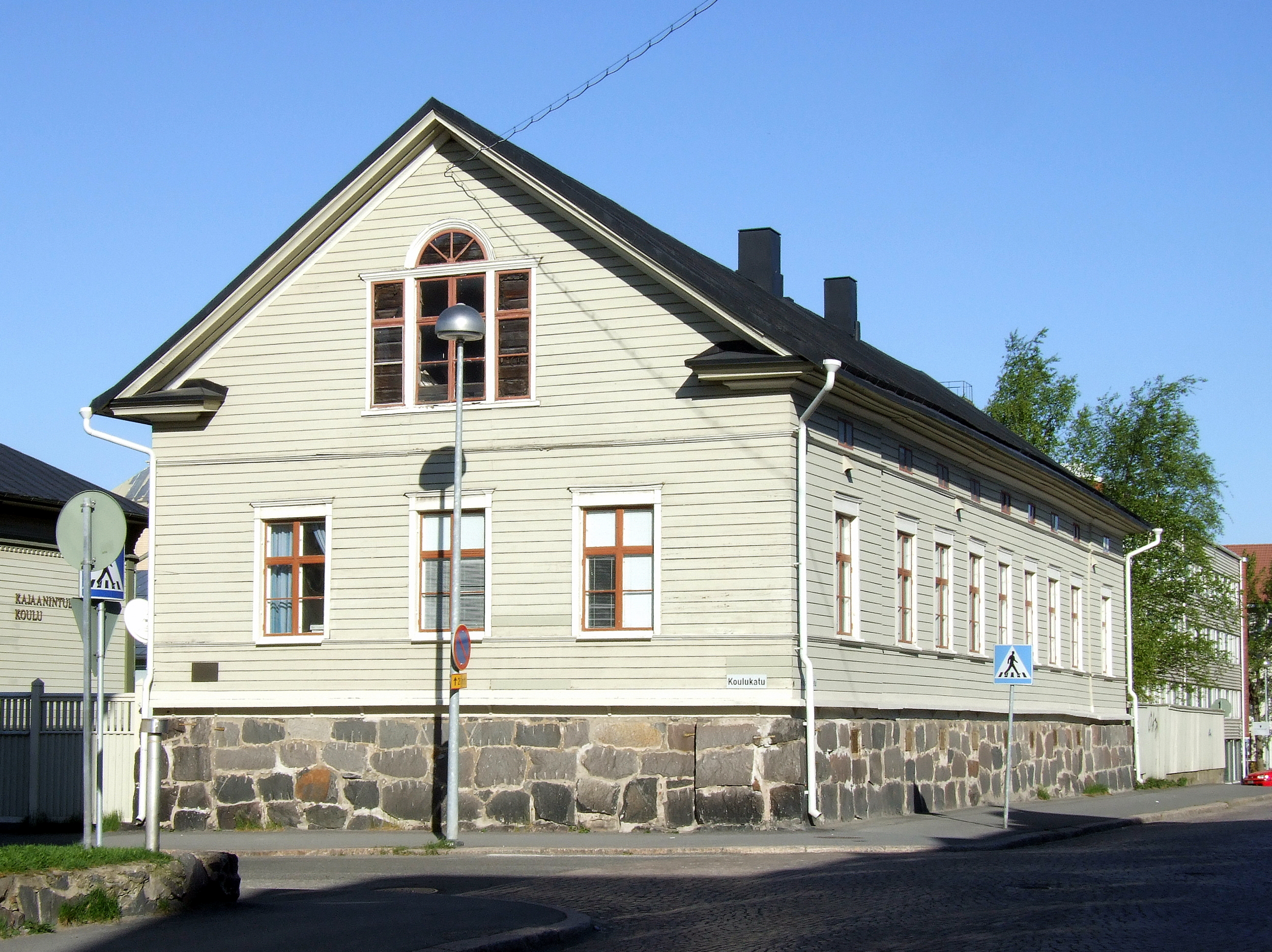 Kajaanintulli Primary School was built as an almshouse (poorhouse) in 1831. The first municipal primary school of Oulu was started in the building in 1874. It is still used as a primary school. Architect Carl Ludvig Engel.